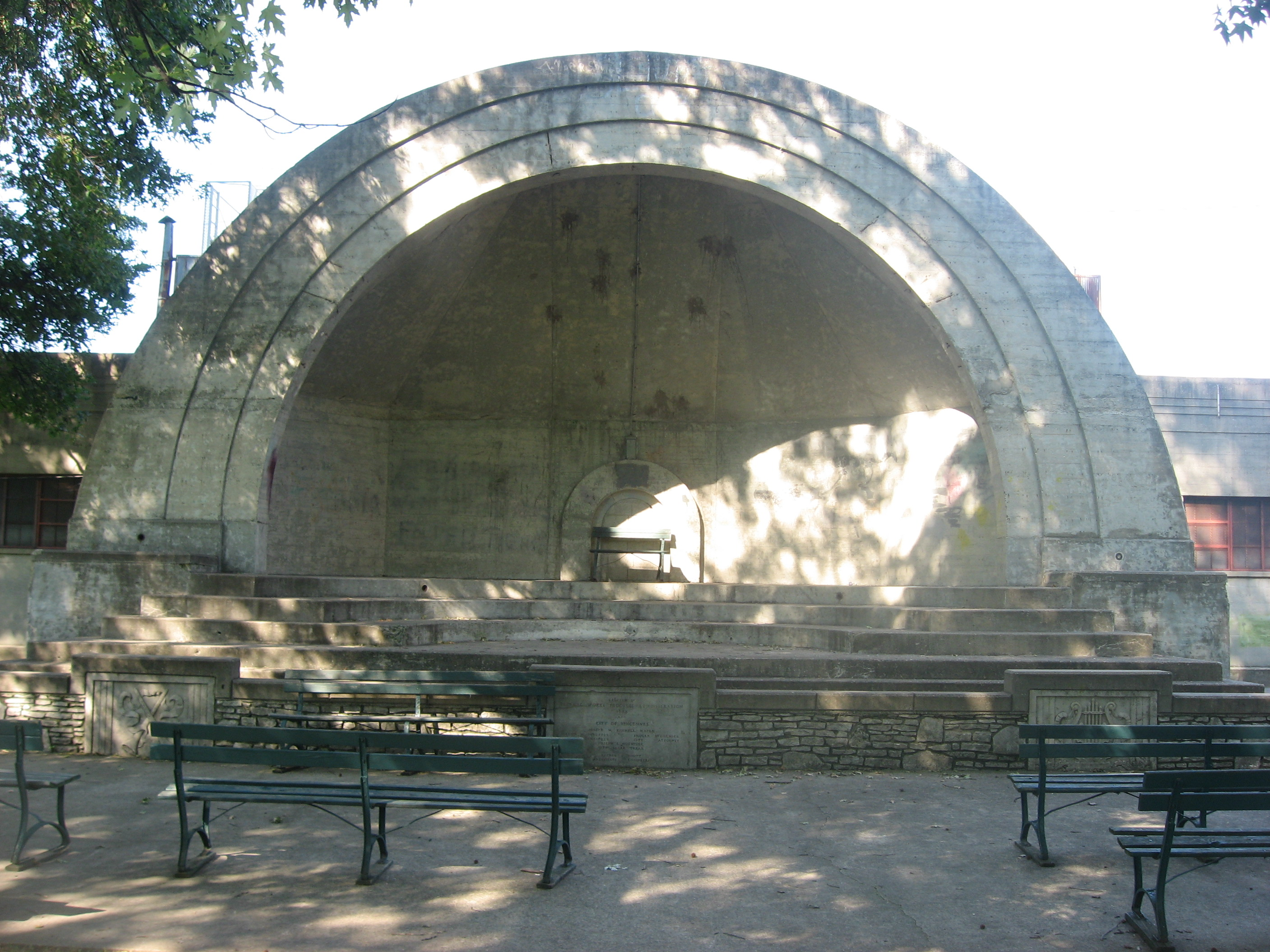 Bandshell at Gregg Park in Vincennes, Indiana, United States. Built in 1939, the park is listed on the National Register of Historic Places.